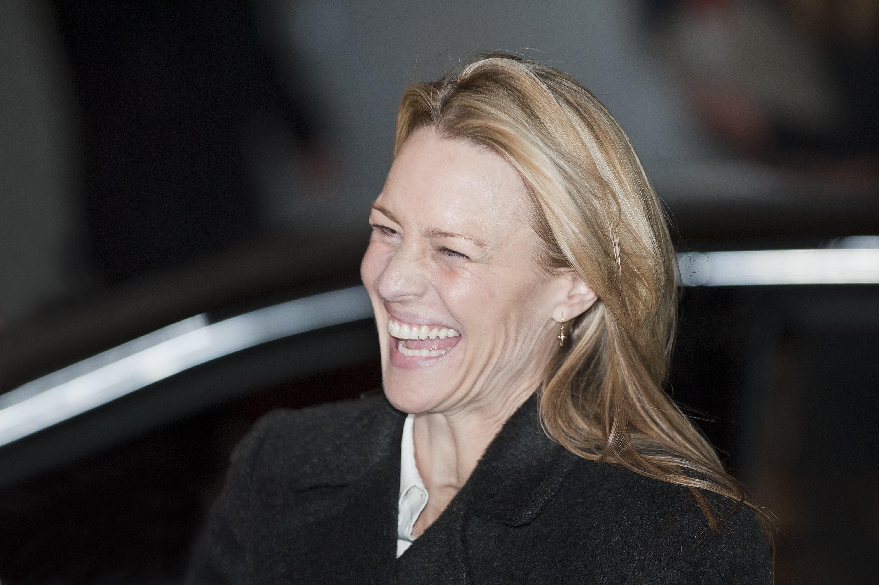 Robin Wright Penn leaving the press conference for "The Private Lives of Pippa Lee", Berlinale 2009